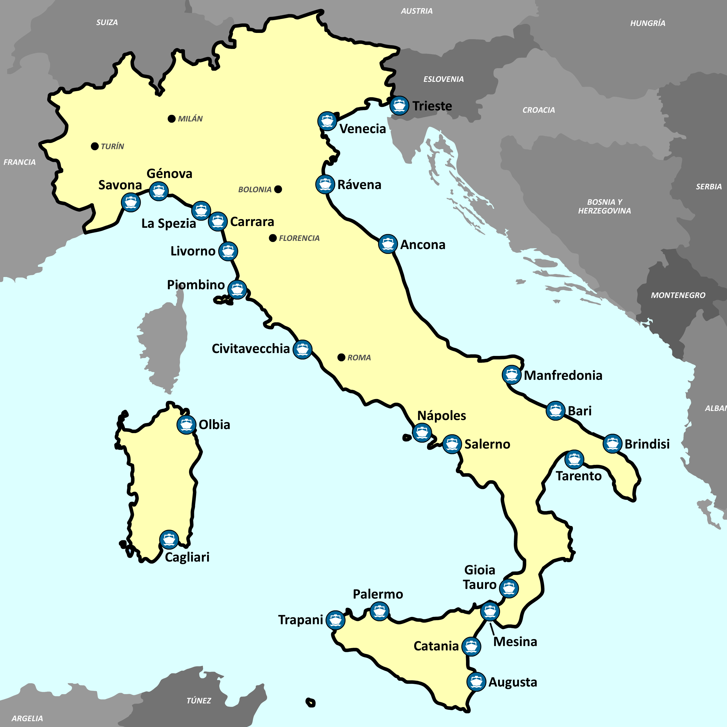 Map of the main ports of Italy